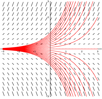 Slope field of y'=y and some solutions